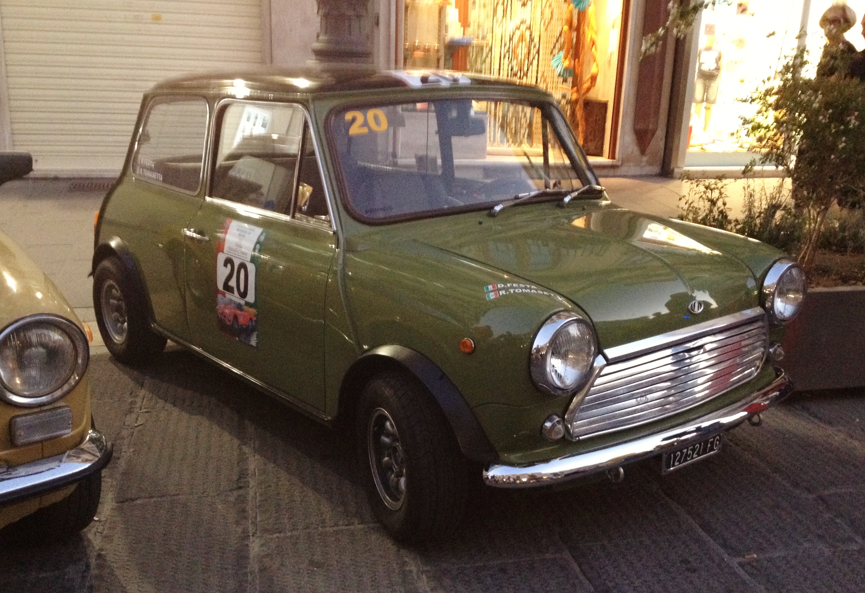 Innocenti Mini Cooper 1.3 MK3 II